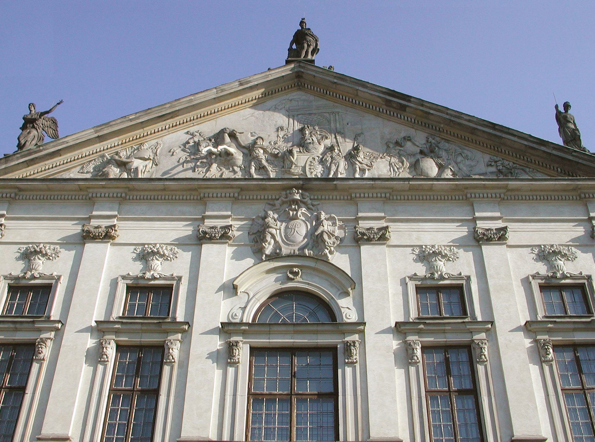 Andreas Schlüter sculptures, Krasiński palace, Warsaw